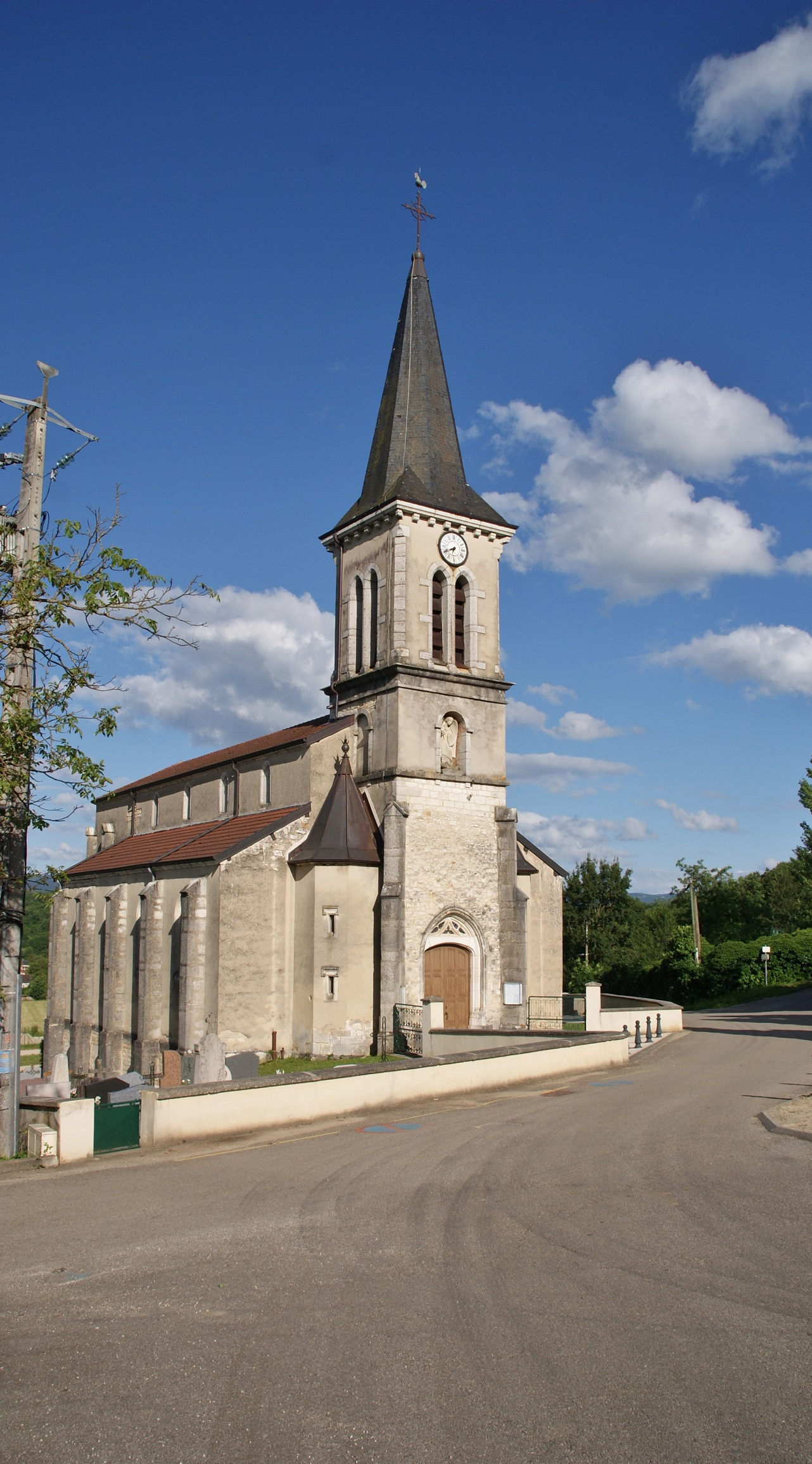 L'église